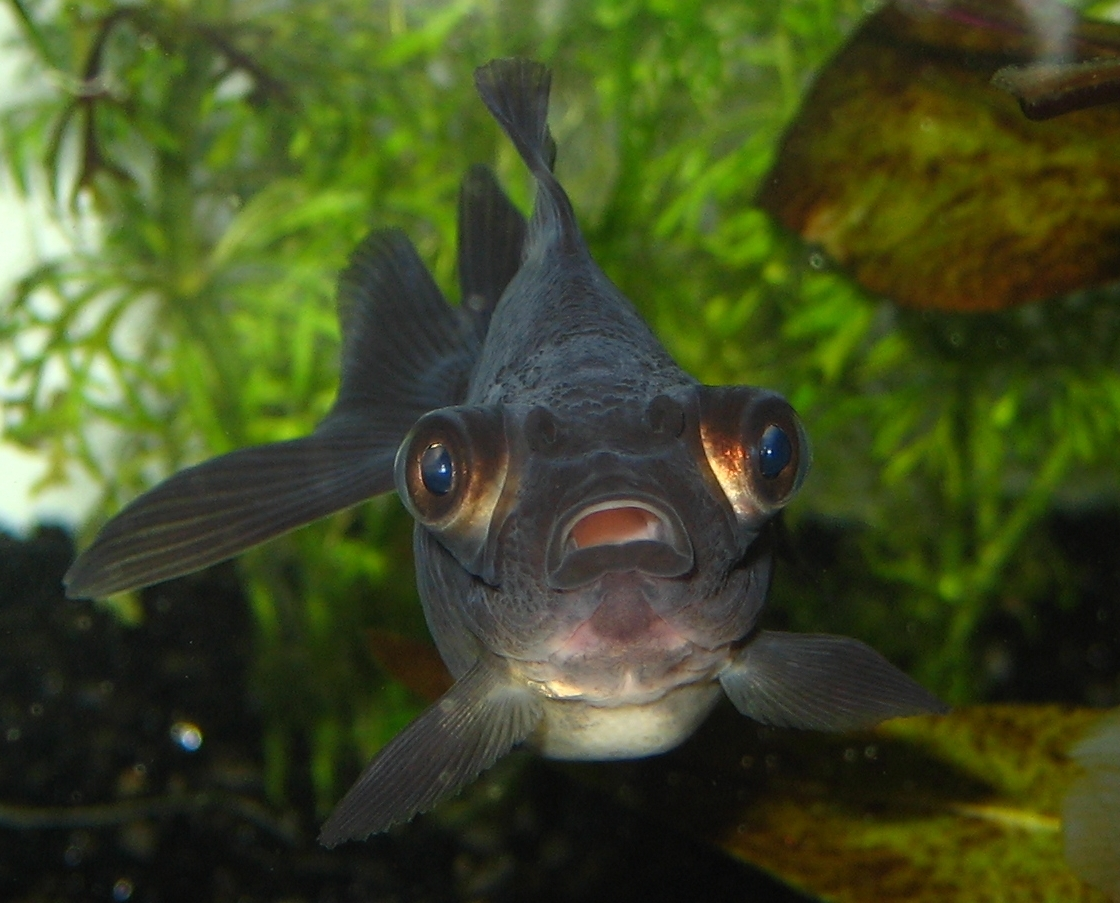 A front view of a black moor, a fancy goldfish breed (Carassius auratus) having a characteristic pair of protruding eyes; it is also known as kuro demekin and dragon-eye.